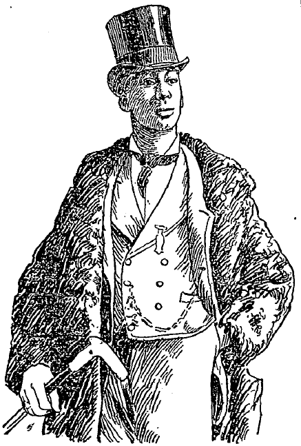 Portrait of the impresario Billy McClean in 1895